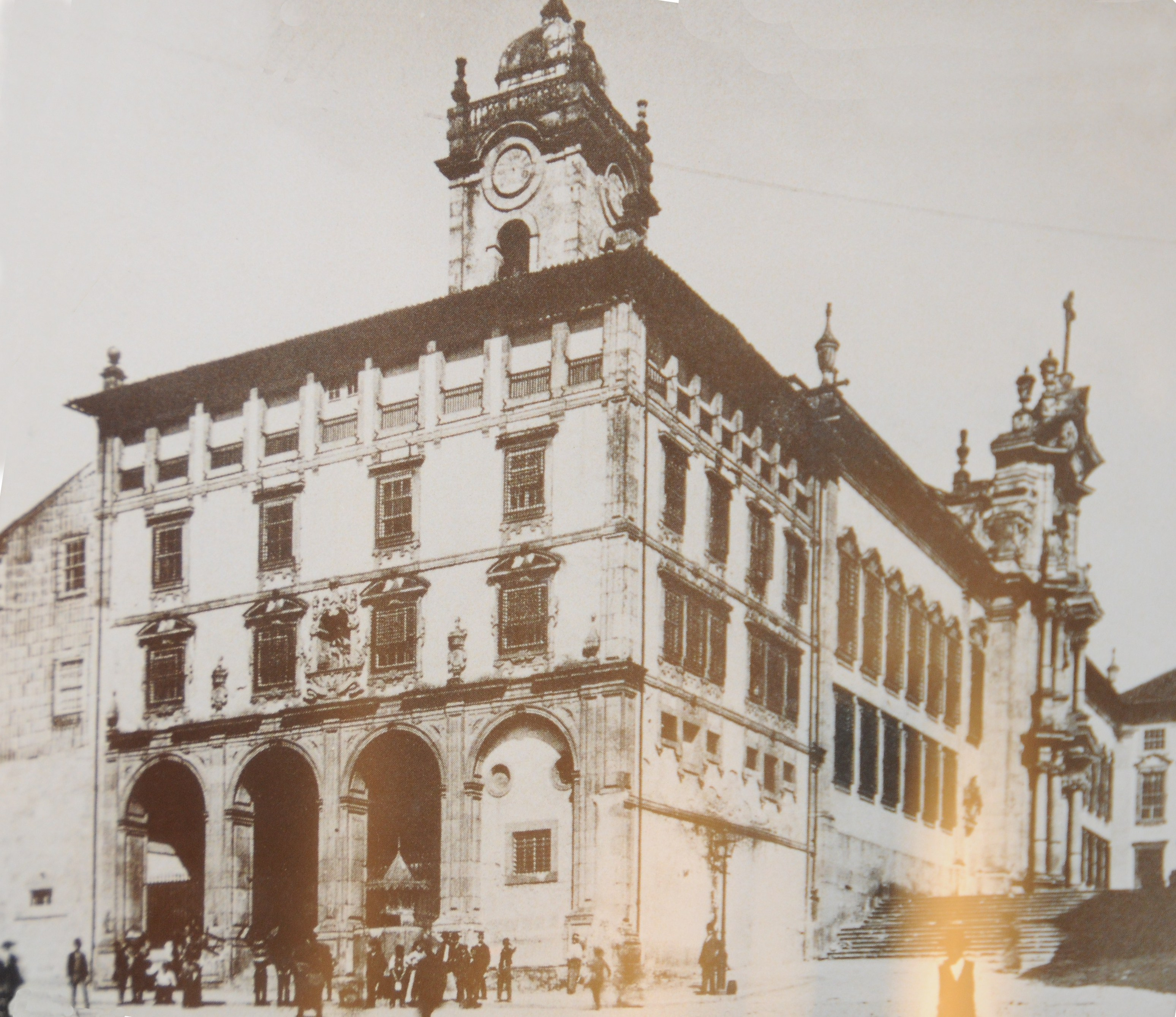 Demolished convent of São Bento da Avé Maria. This building was where is now the Porto São Bento train station